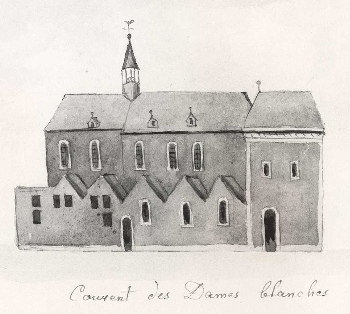 Maastricht, the Netherlands. Drawing of the former chapel of the Wittevrouwen monastery at Vrijthof. 19th-century drawing (reconstruction?) by Philippus van Gulpen.